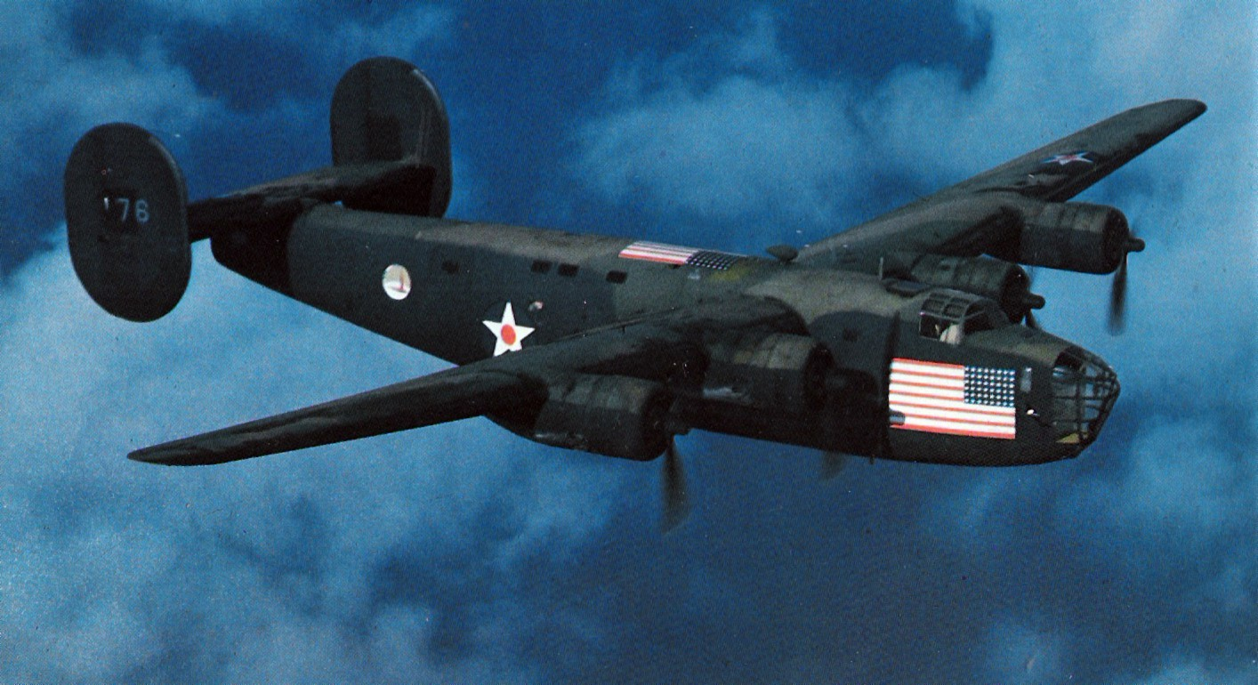 The eighth U.S. Army Air Force Consolidated B-24A Liberator built (s/n 40-2376), in 1941. This aircraft was to be transferred to the Royal Air Force, but was kept by the (US) AAF. It flew with RAF camouflage but US markings for the AAF Ferry Command. This aircraft was lost on 5 May 1942, when it had to ditch in the lagoon of Ju Island, Batang Pele Group, in the Netherlands East Indies after running out of fuel while attempting to return to Darwin (Australia). This aircraft had previously been flown by 1Lt Harvey Watkins on 4 Dec 1941 when it attempted to embark on a 1941 super secret pre-war photo recon mission along with its sister ship, B-24A 40-2371 flown by 1Lt Ted S. Faulkner and 2Lt William H. Campbell of the 88th Recon Squadron. Watkins aircraft departed Hamilton Field for Hawaii but was forced to return Sacramento due to mechanical problems, while Faulkner's B-24A aircraft continued on to Hickam Field in the Territory of Hawaii where it landed on 5 Dec 1941 and later became the first American aircraft destroyed with the first string of bombs to fall on Hickam Field on 7 Dec 1941. A similar fate likely awaited this aircraft had it also arrived at Hickam Field as planned.